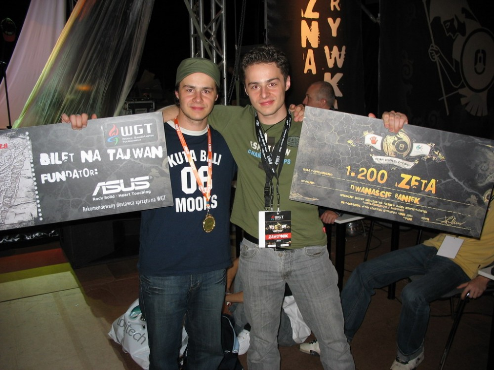 Frag eXecutors Quake players: Mateusz "matr0x" Ozga and Szymon "STING" Ozga with prizes from Heyah Logitech Cybersport 2006